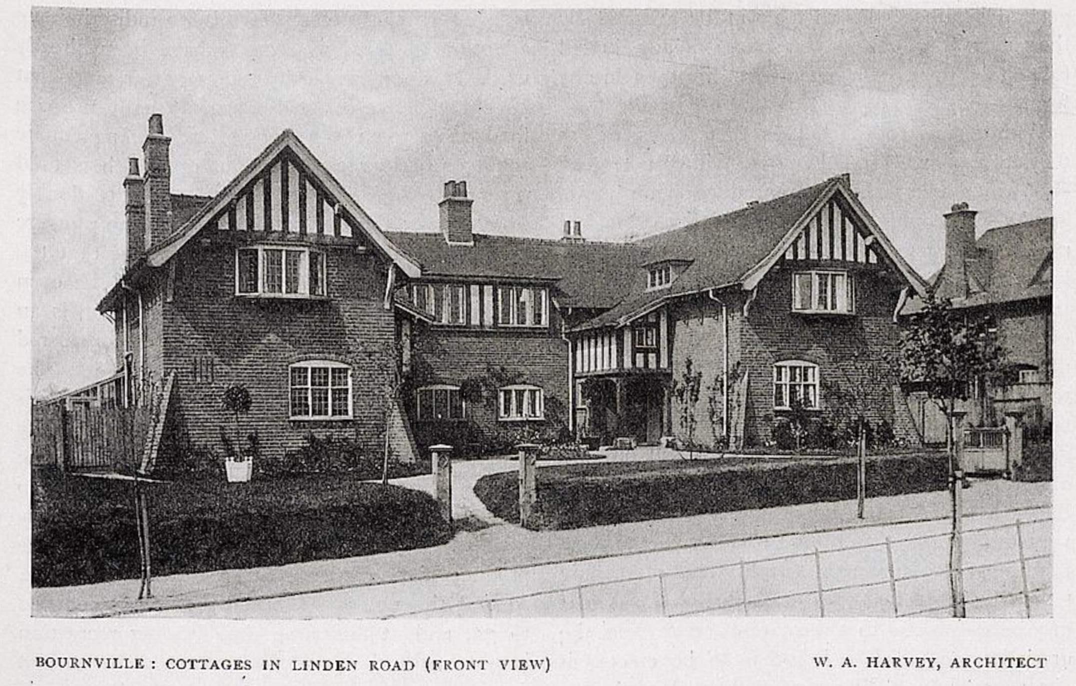 From The Studio, International Art Magazine. 1901. 24 and 26, Linden Road, Bournville, Birmingham